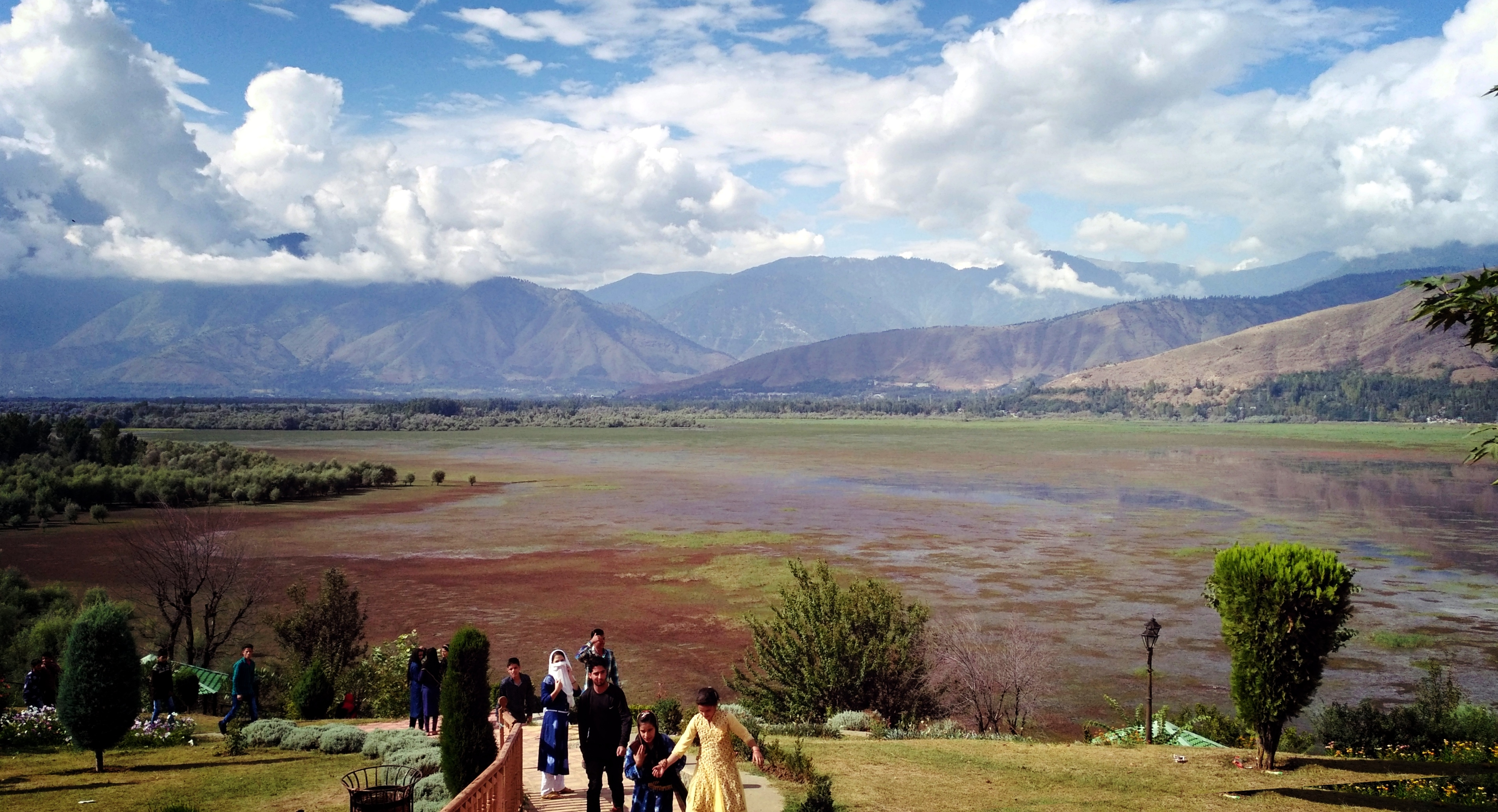 Tingy